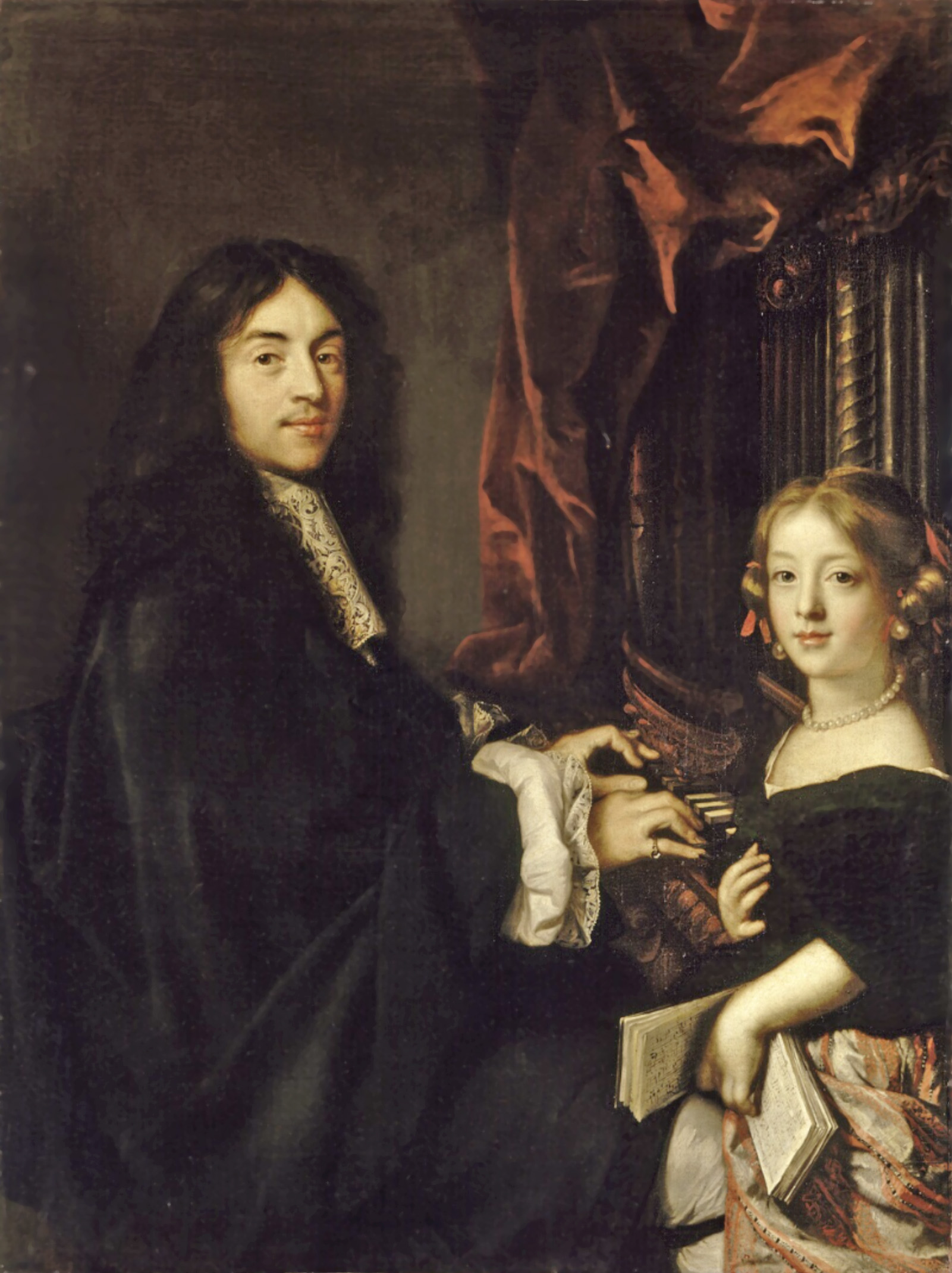 Portrait of Charles Couperin and the second daughter of the painter, Claude Lefèbvre